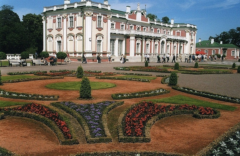 One of more museums at Kadriorg.